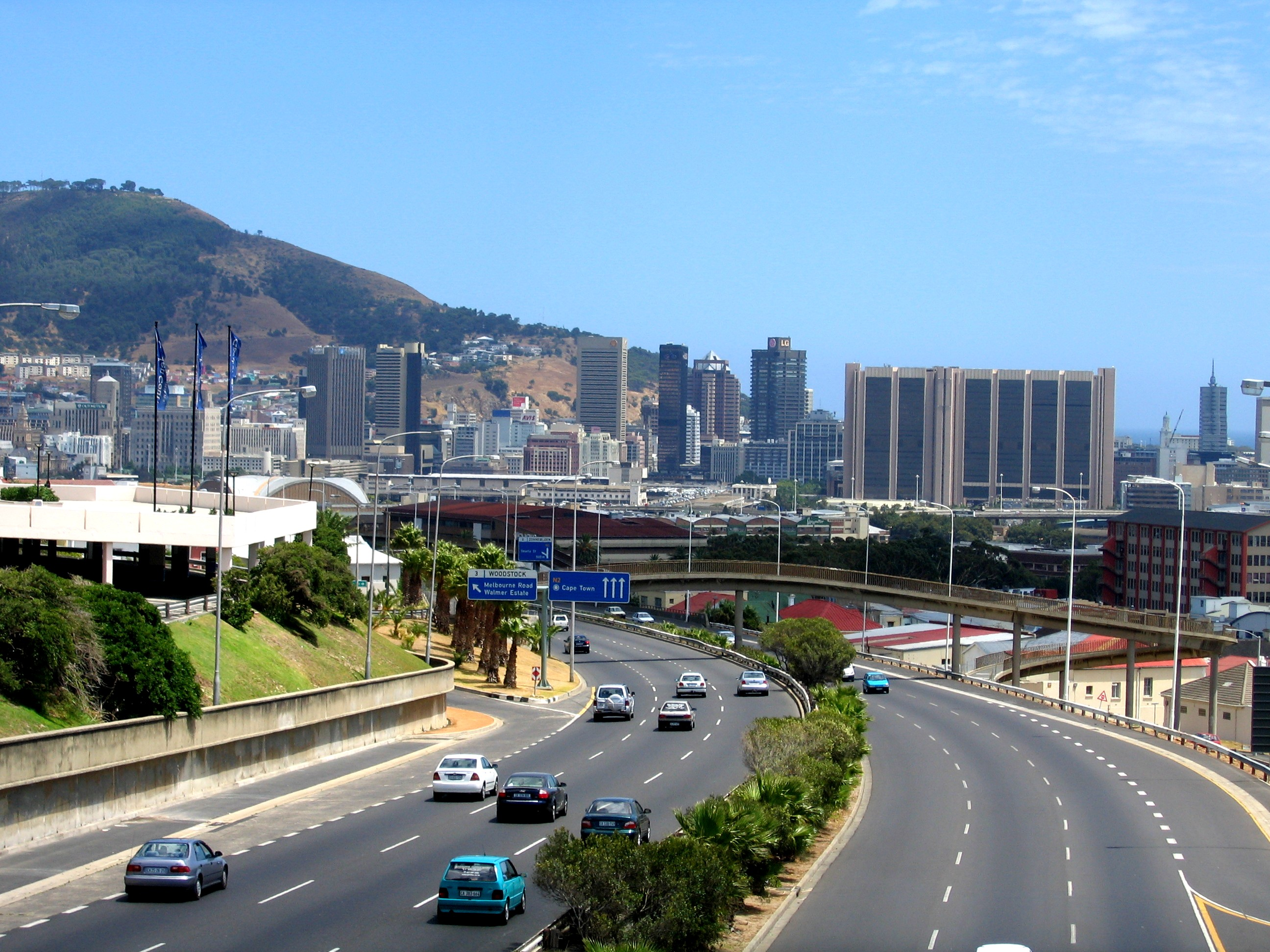 National road N2 entering City Bowl of Cape Town, South Africa